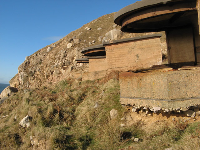 Gun emplacements Remains of the gun emplacements which were used by the Royal Artillery coastal gunnery school when it was located on the Great Orme from 1940. This site was reached by concrete steps which have now fallen away due to the constant landslipping. The mass-concrete emplacements have now begun to tilt quite alarmingly towards the sea as the boulder clay creeps forward and down the hill. They were built in a hurry and not required to last for such a long time.